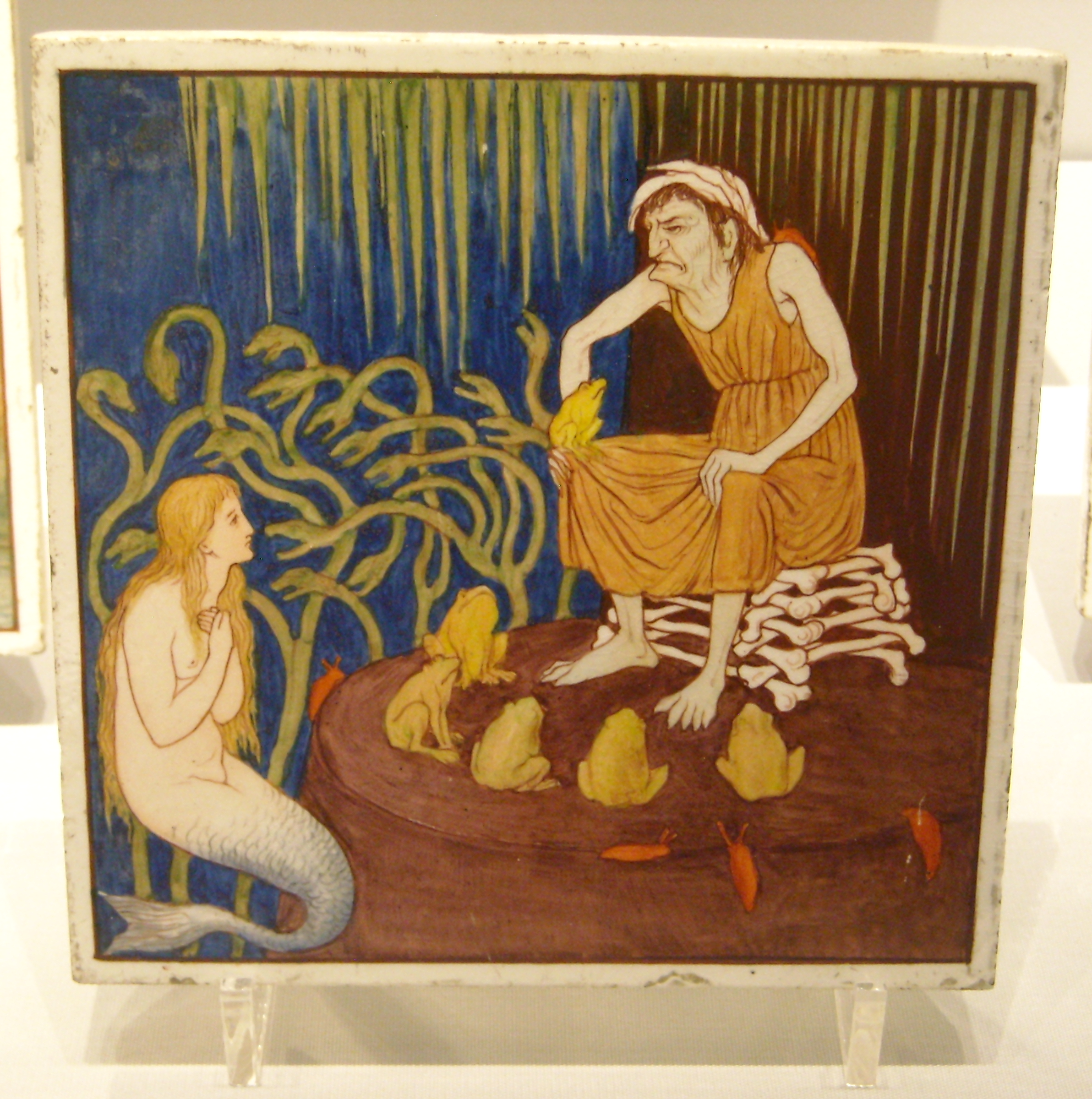 One of a series of tiles painted around 1867 by Henry Holiday (1839-1927) illustrating the story of The Little Mermaid. Tiles produced by Minton Hollins and Co.. On display at The Higgins museum and gallery, Bedford.